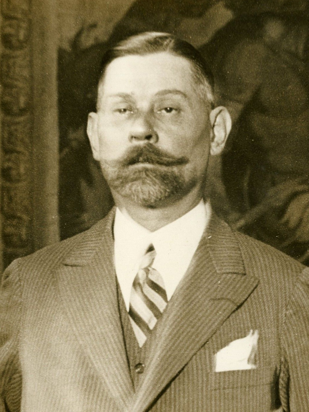 "Mr J.L. DUMESNIL (CONFERENCE DESARMEMENT 1932)" Photo originale G.DEVRED / ROL